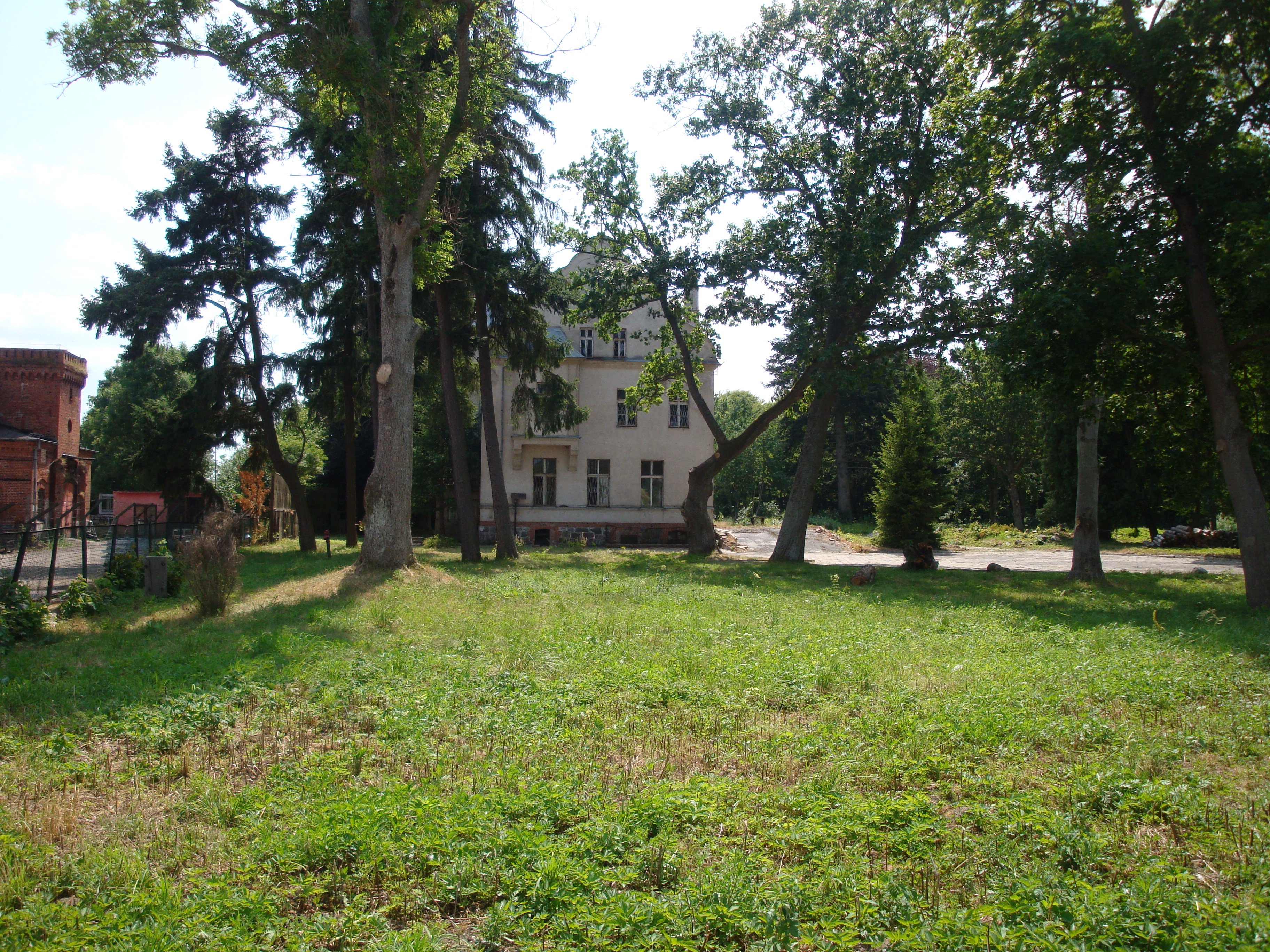 Karżcino-village in Pomeranian Voivodeship, Poland.